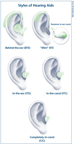 Image illustrating the different types of hearing aids. Retrieved from on November 25th, 2007.